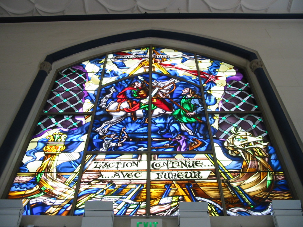 Photograph of the stained glass window over the main entrance of 100 McAllister Street, San Francisco, currently used as housing for students of UC Hastings College of the Law. The window reads "Hastings 1066" and "L'action continue... ...avec fureur" and depicts the historic Battle of Hastings.